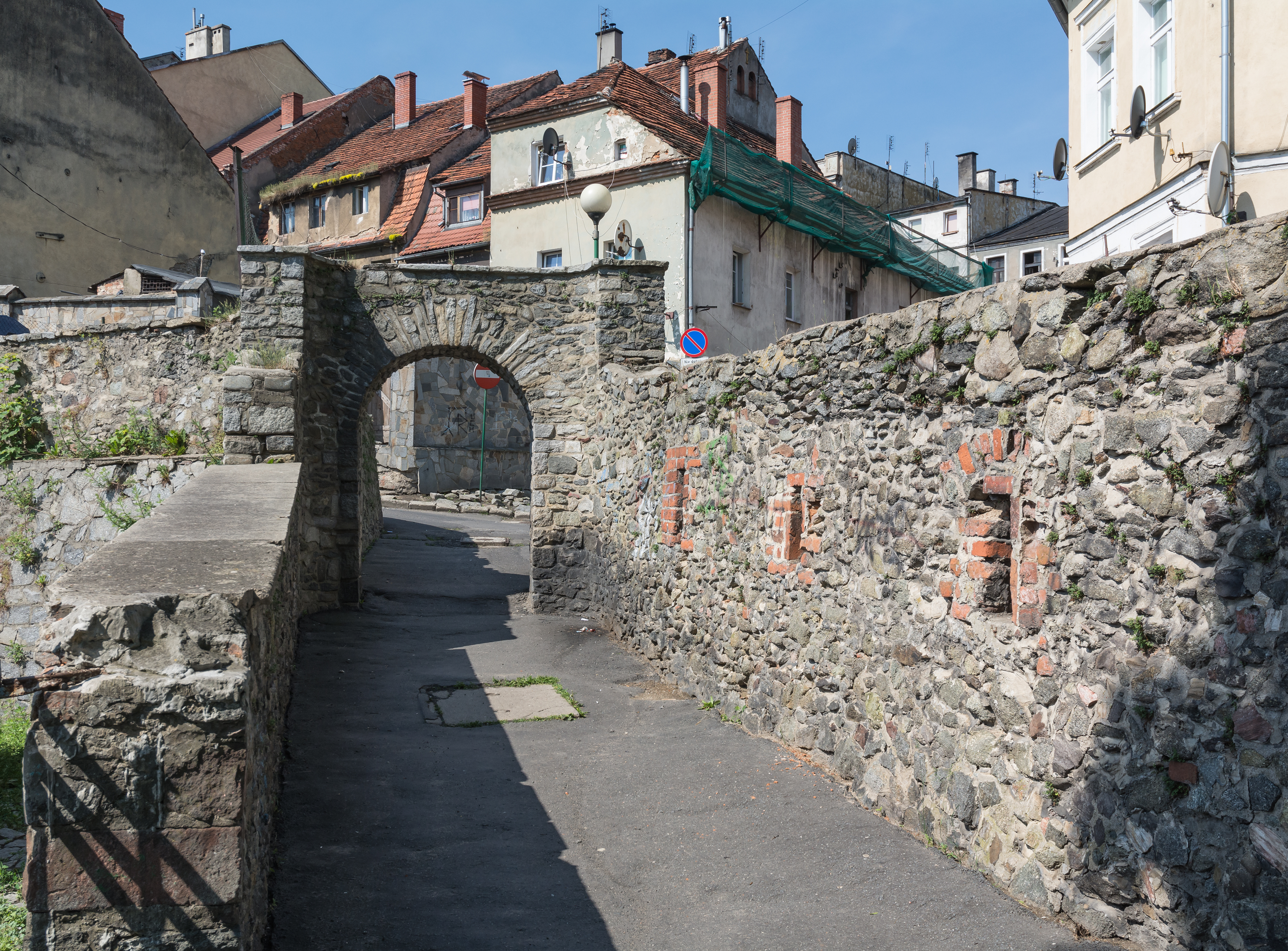 Lower Gate in Niemcza, wicket gate